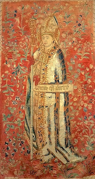 Tapestry showing St. Thuribus, before 1468 (Philadelphia Museum of Art)